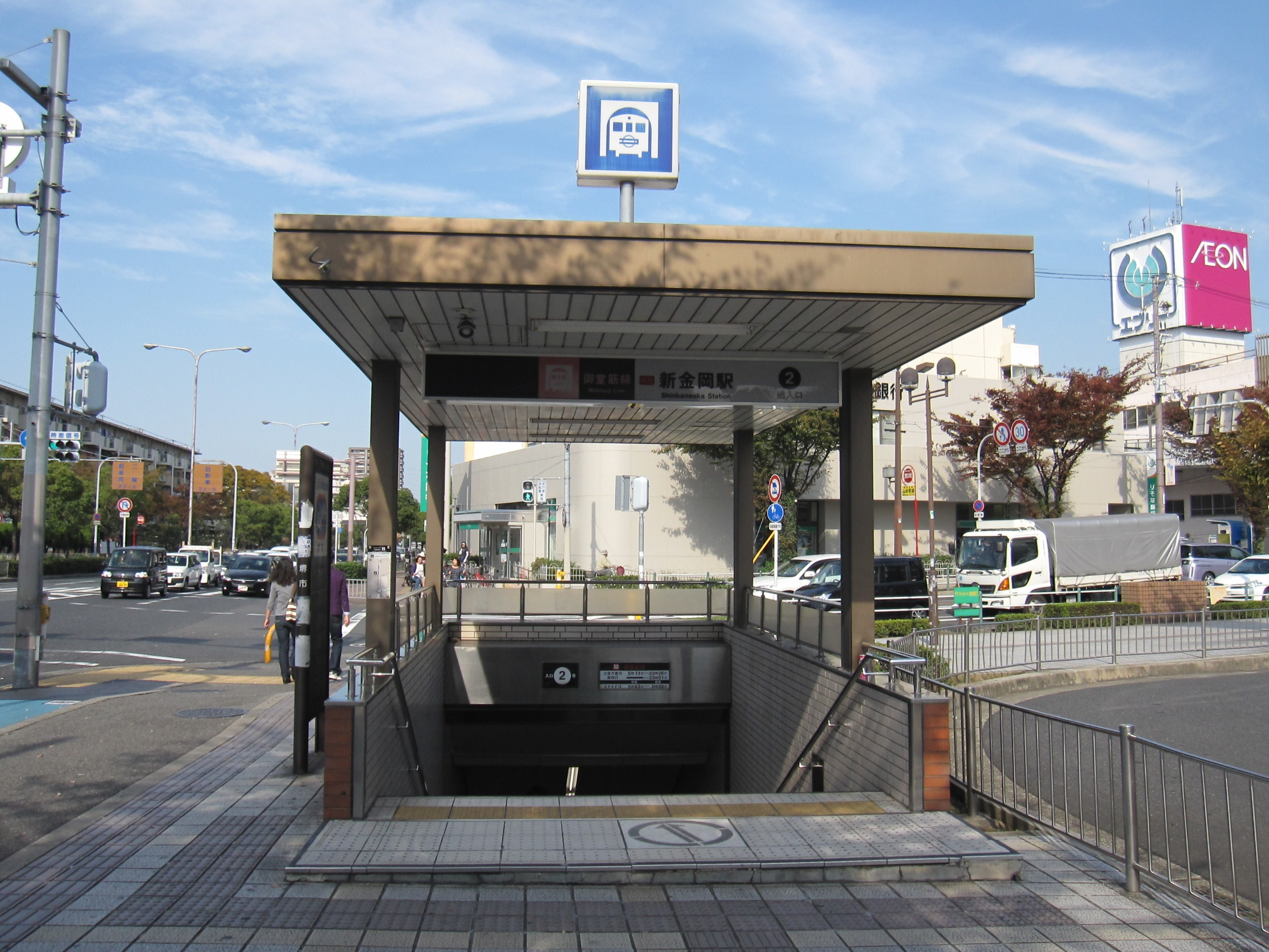 Municipal Subway Station, Osaka, Japan.